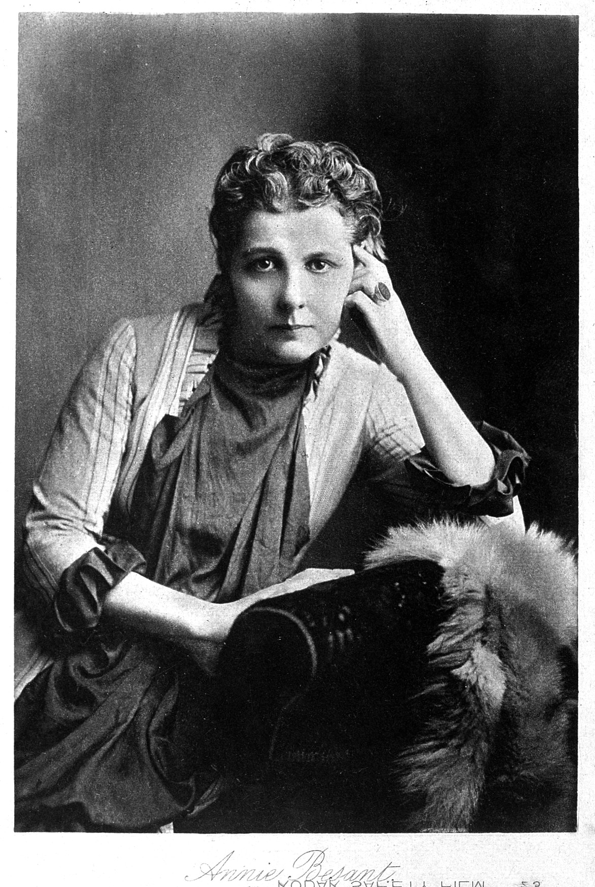 Portrait of Annie Besant (1849-4933) Supporter of the Bryant and May Matchgirls strike, 1888. Iconographic Collections Keywords: Annie Besant